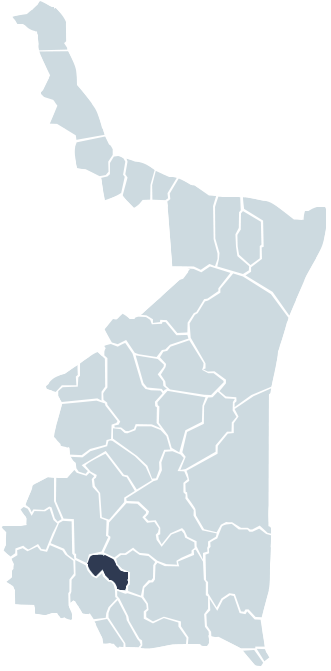 Municipality of Gomez Farias Tamaulipas